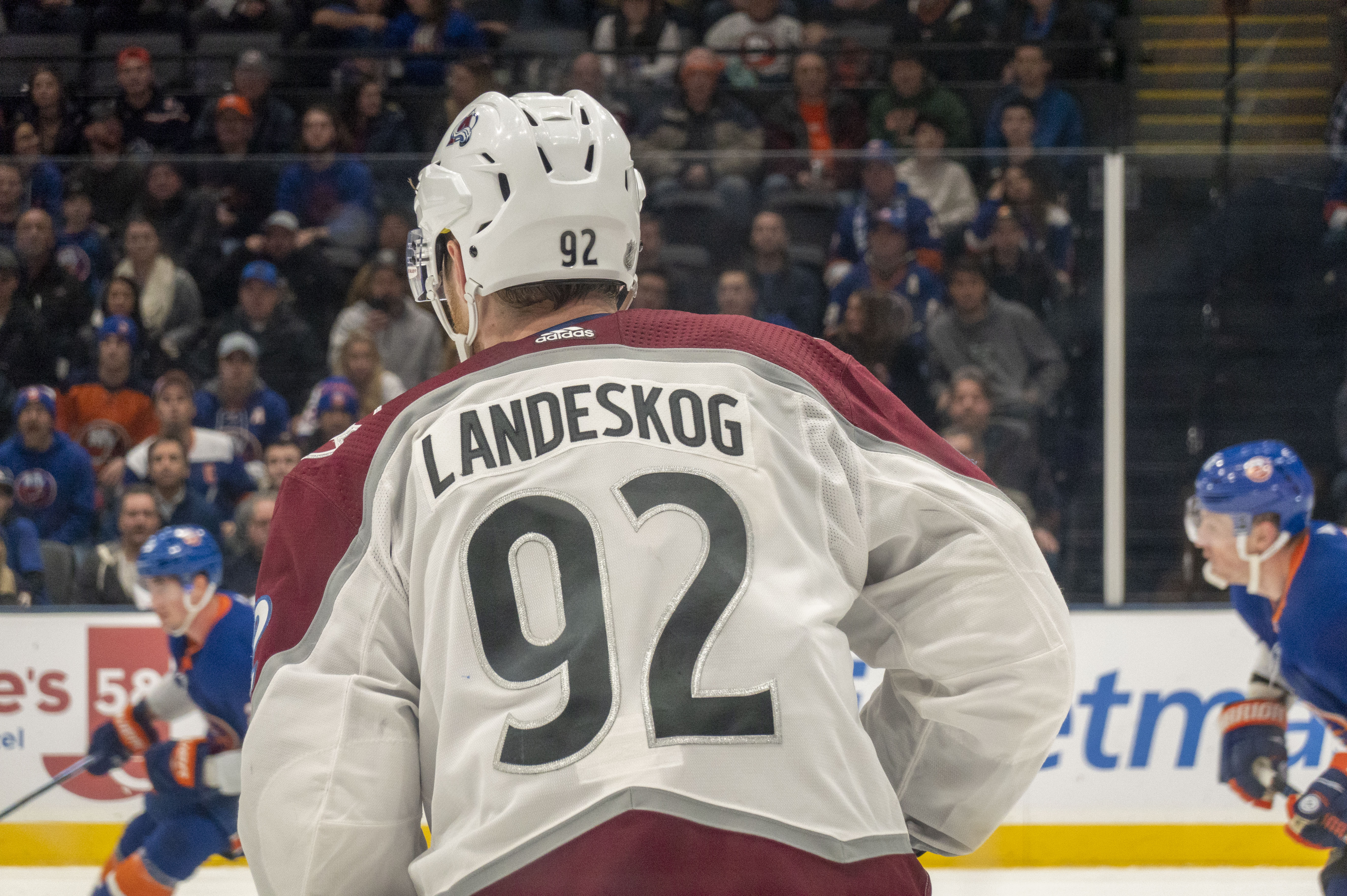 Gabriel Landeskog with the Avalanche in 2020.